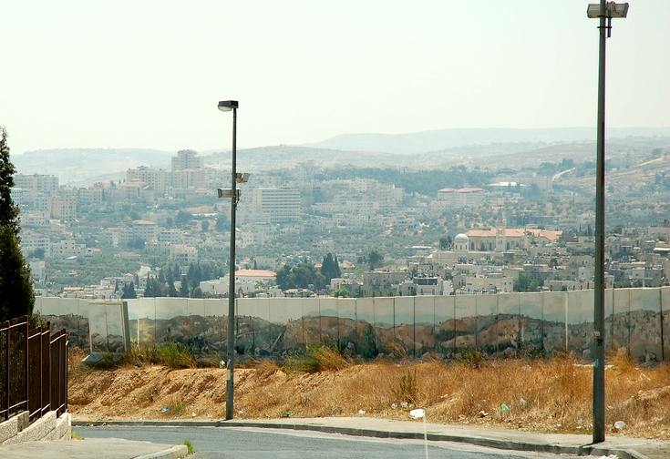 View from Gilo settlement on the West Bank, towards Bethlehem in the Palestinian territories - 30 August 2007